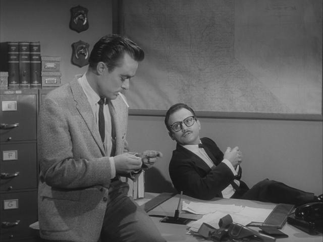 A scene from The Little Shop of Horrors.